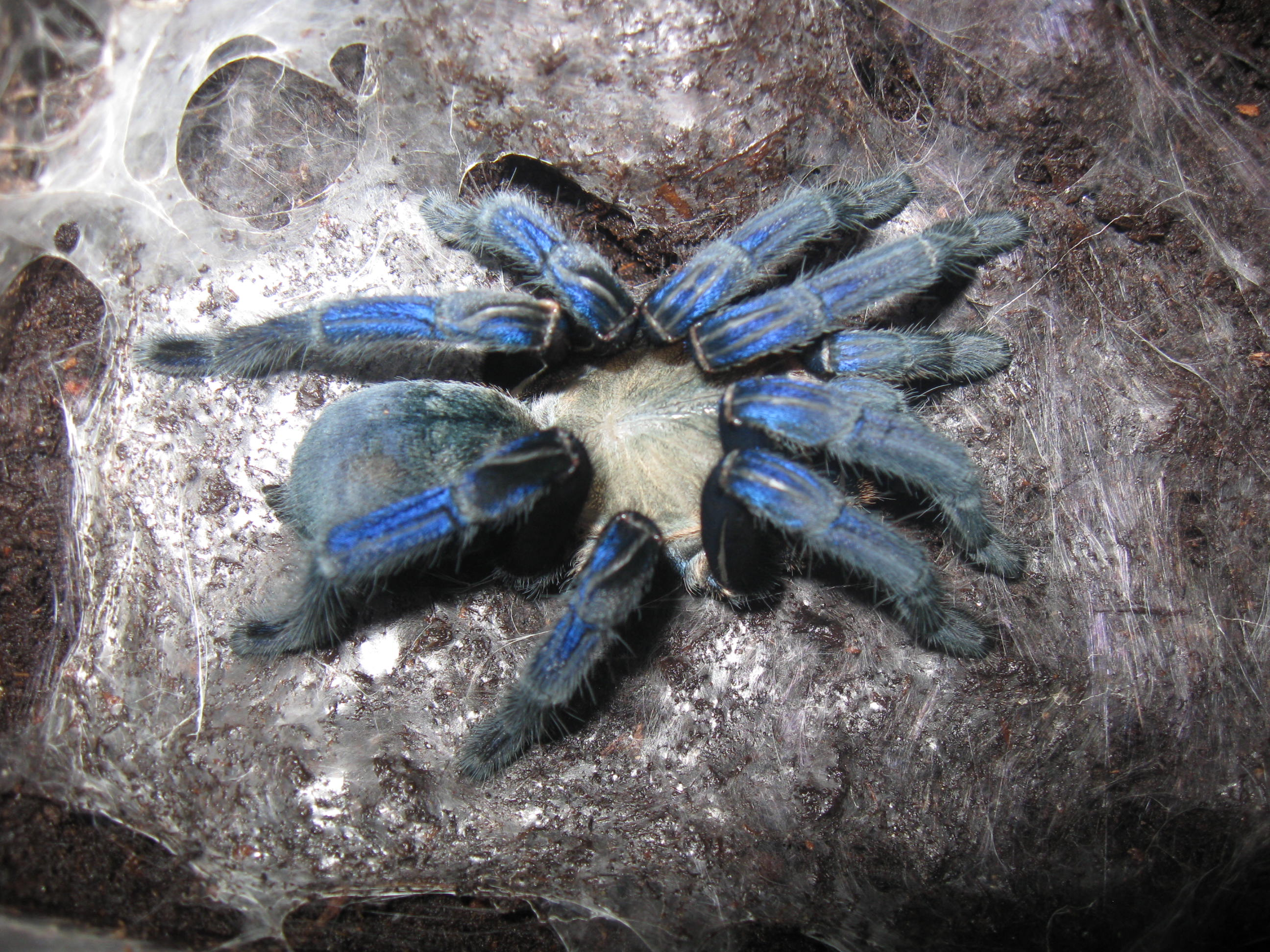 Cyriopagopus lividum